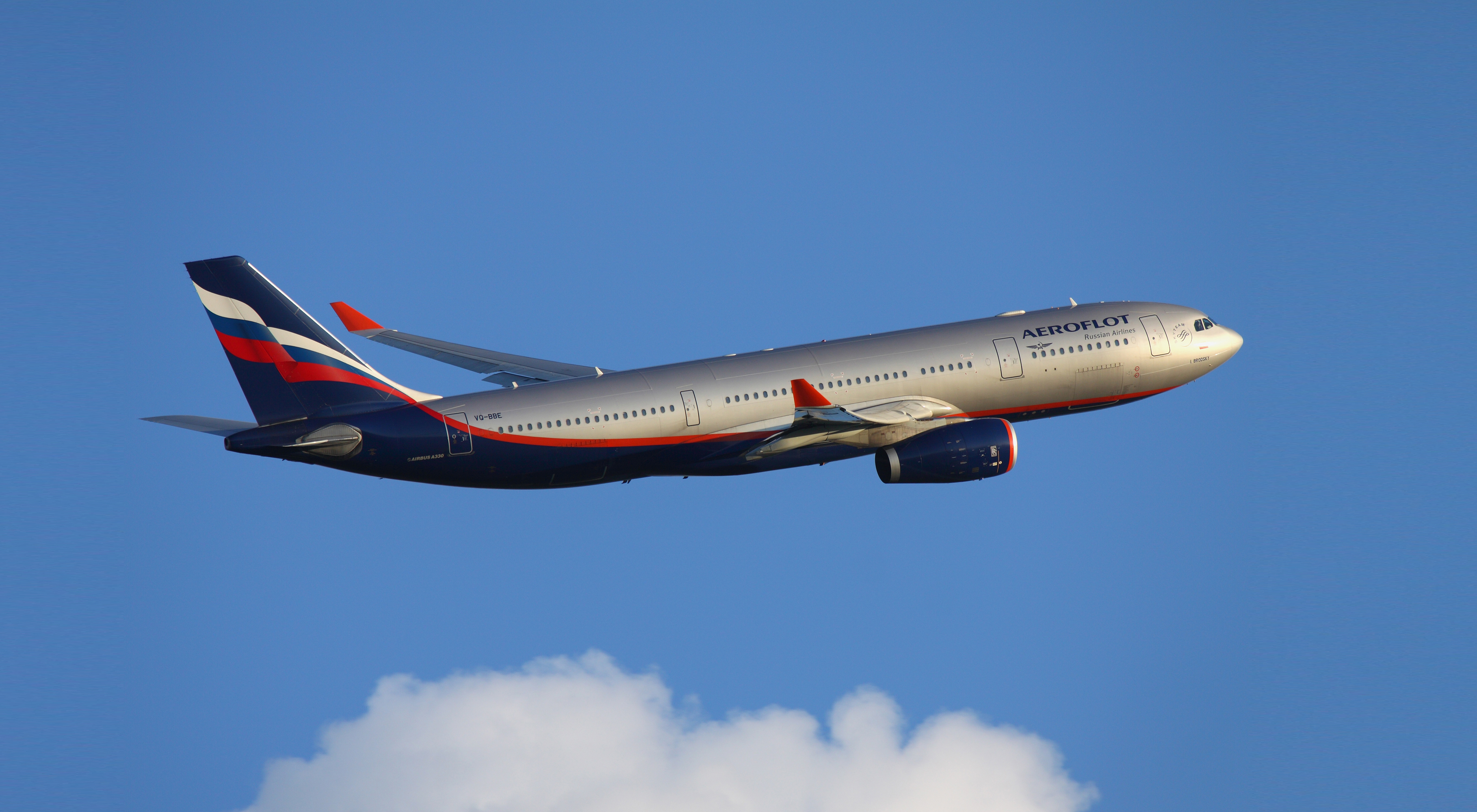 An Aeroflot Airbus A330-200 as it climbs out of Sheremetyevo Airport.